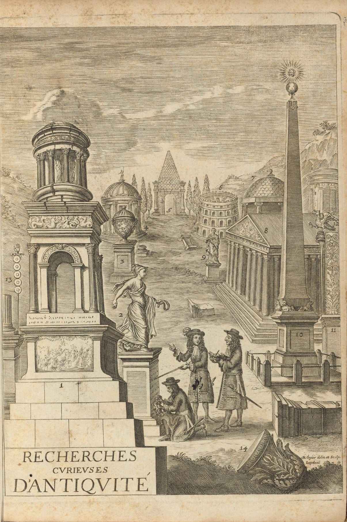 Title page from Recherches curieuses d’antiquité, 1683, by Jacob Spon (1647-1685). Typ 615.83.805, Houghton Library, Harvard University